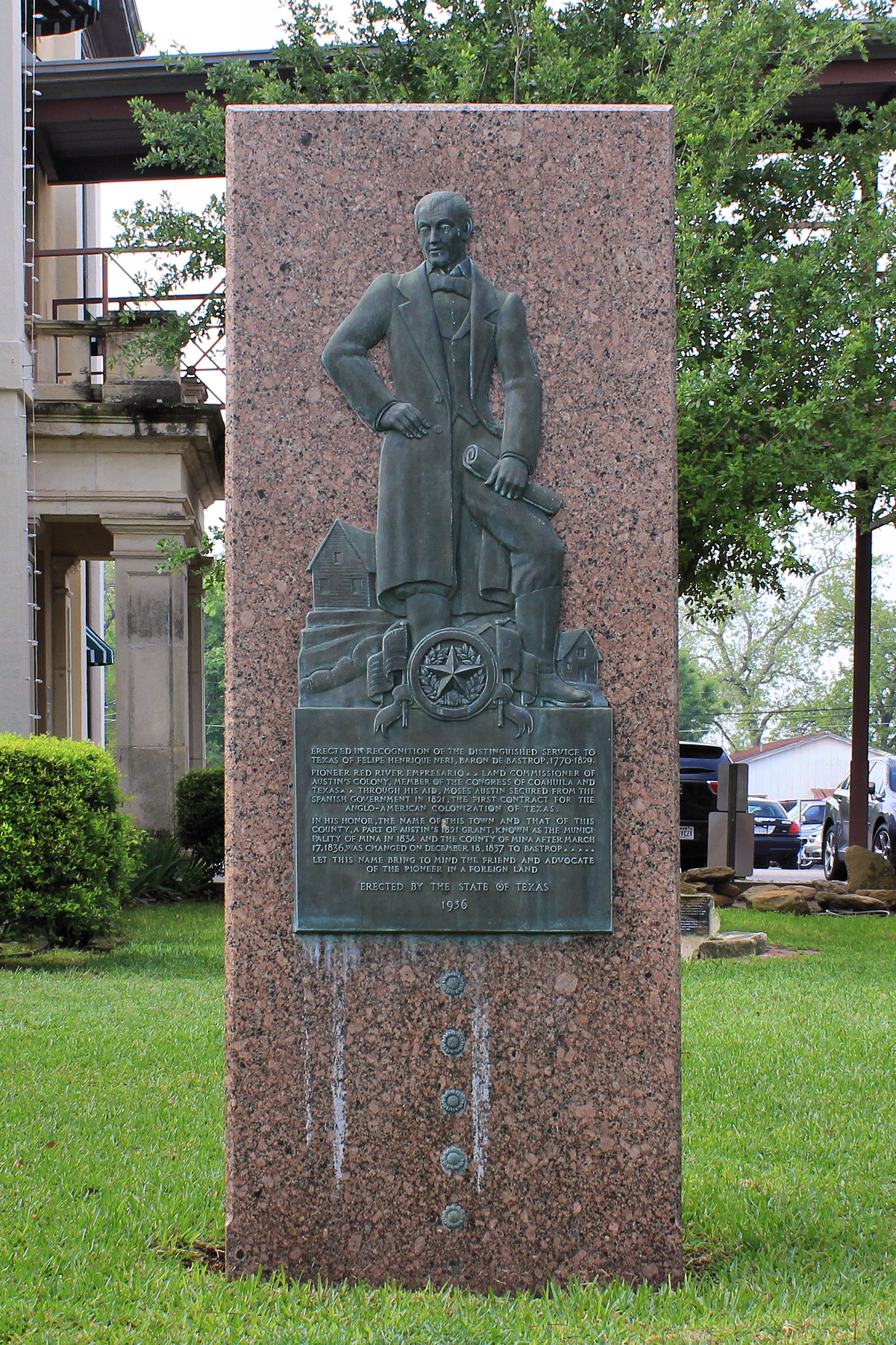 The Felipe Enrique Neri, Baron de Bastrop Texas Centennial Monument on the grounds of the Bastrop County Courthouse in Bastrop, Texas, United States.